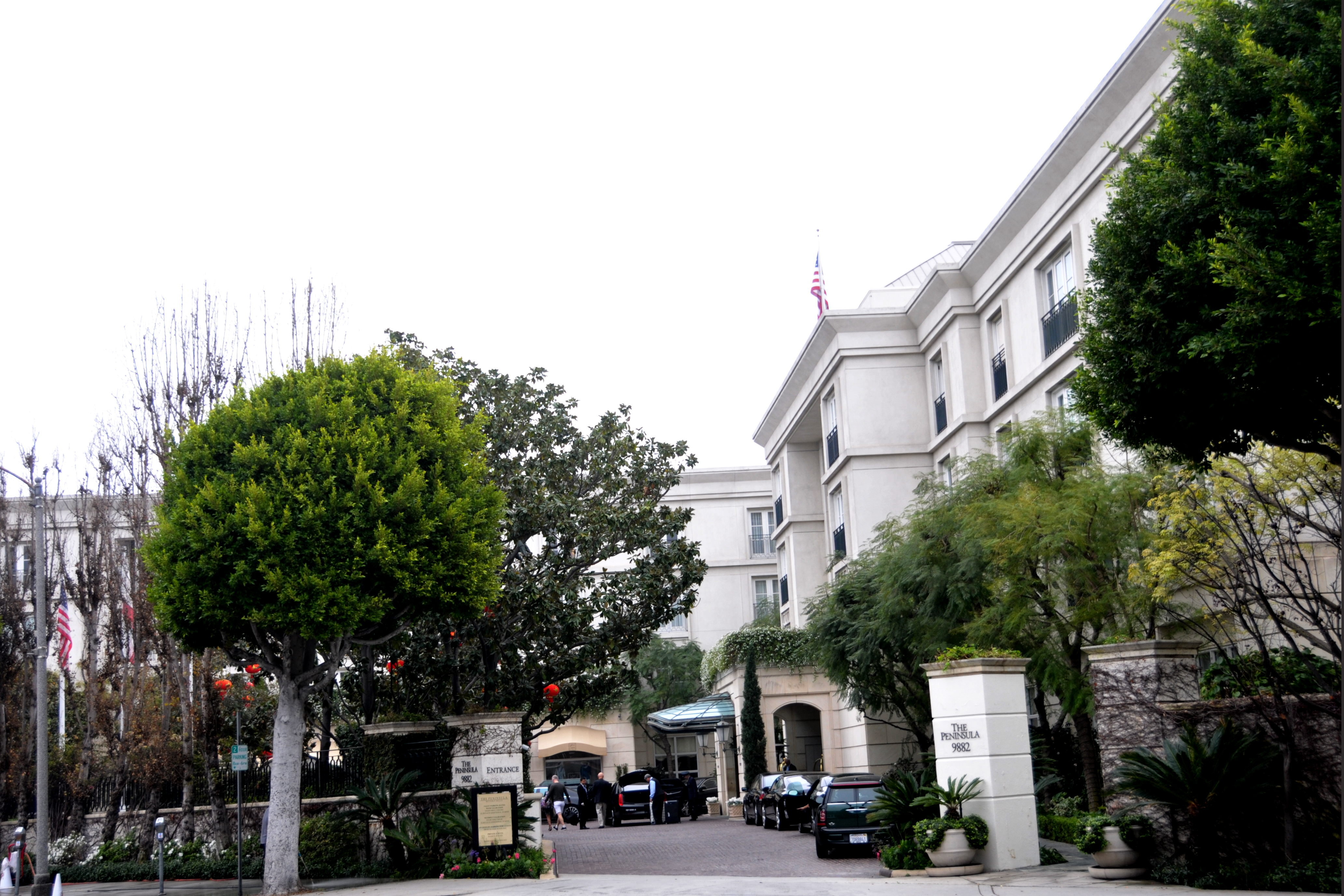 The Peninsula Beverly Hills Hotel, Beverly Hills, California on February 19, 2015 - Photo by Glenn Francis of